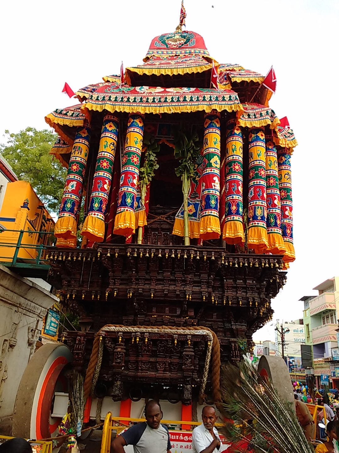 Madurai Meenakshi Temple Car Festival 2016